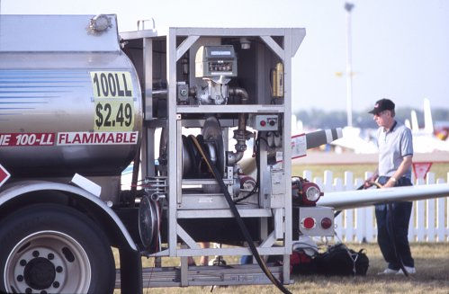 100LL, $2.49/gallon Avgas refeulling100LL $2.49